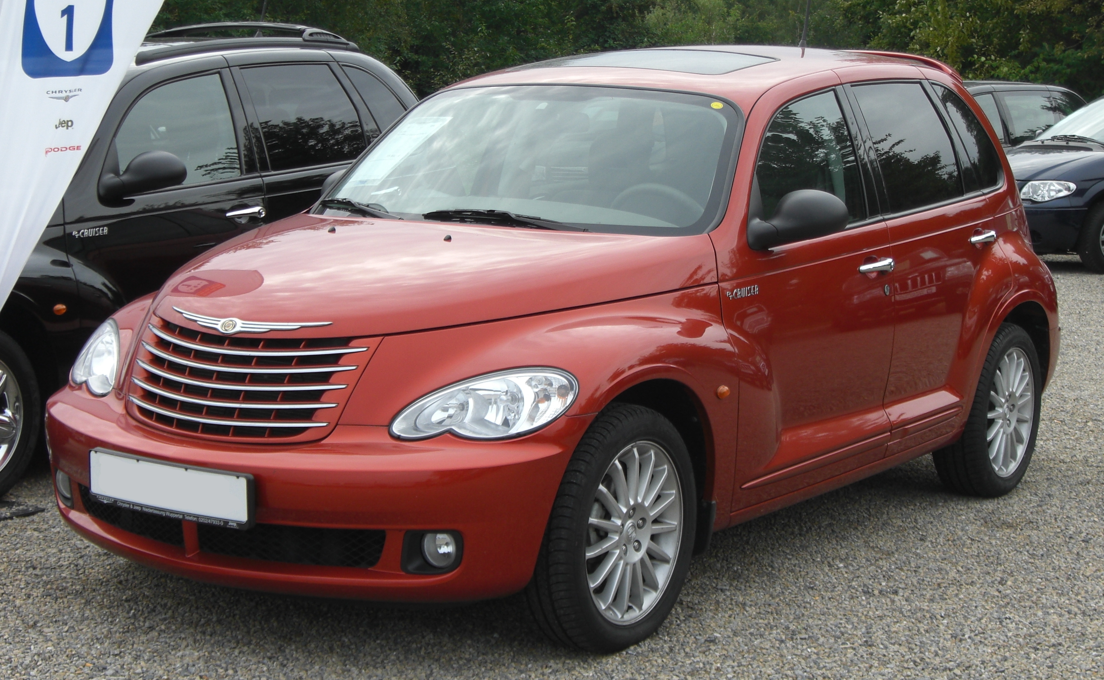 Chrysler PT-Cruiser